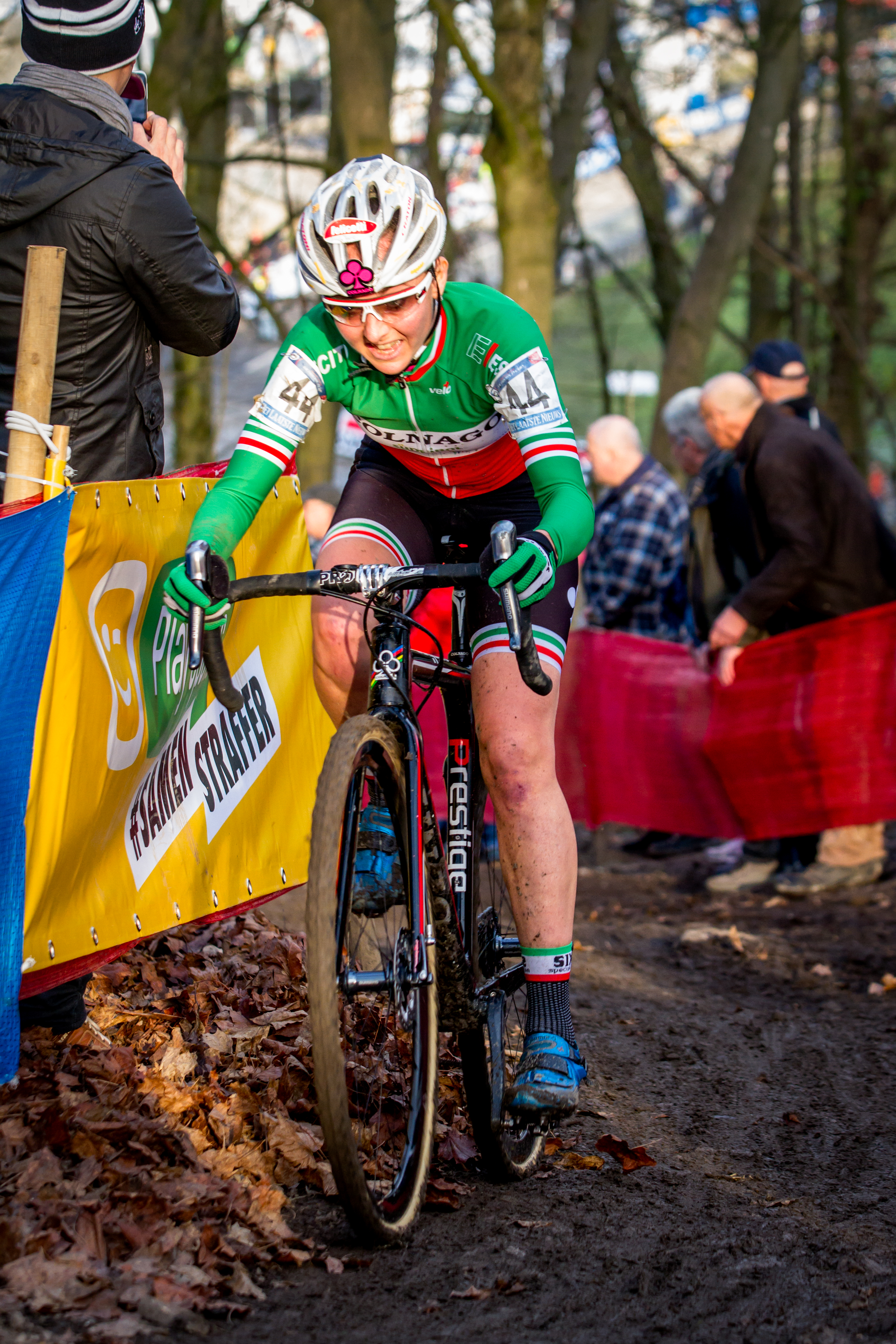 Eva Lechner (ITA) of Colnago Cap Arreghini. UCI Cyclocross World Cup, Namur, 2015.